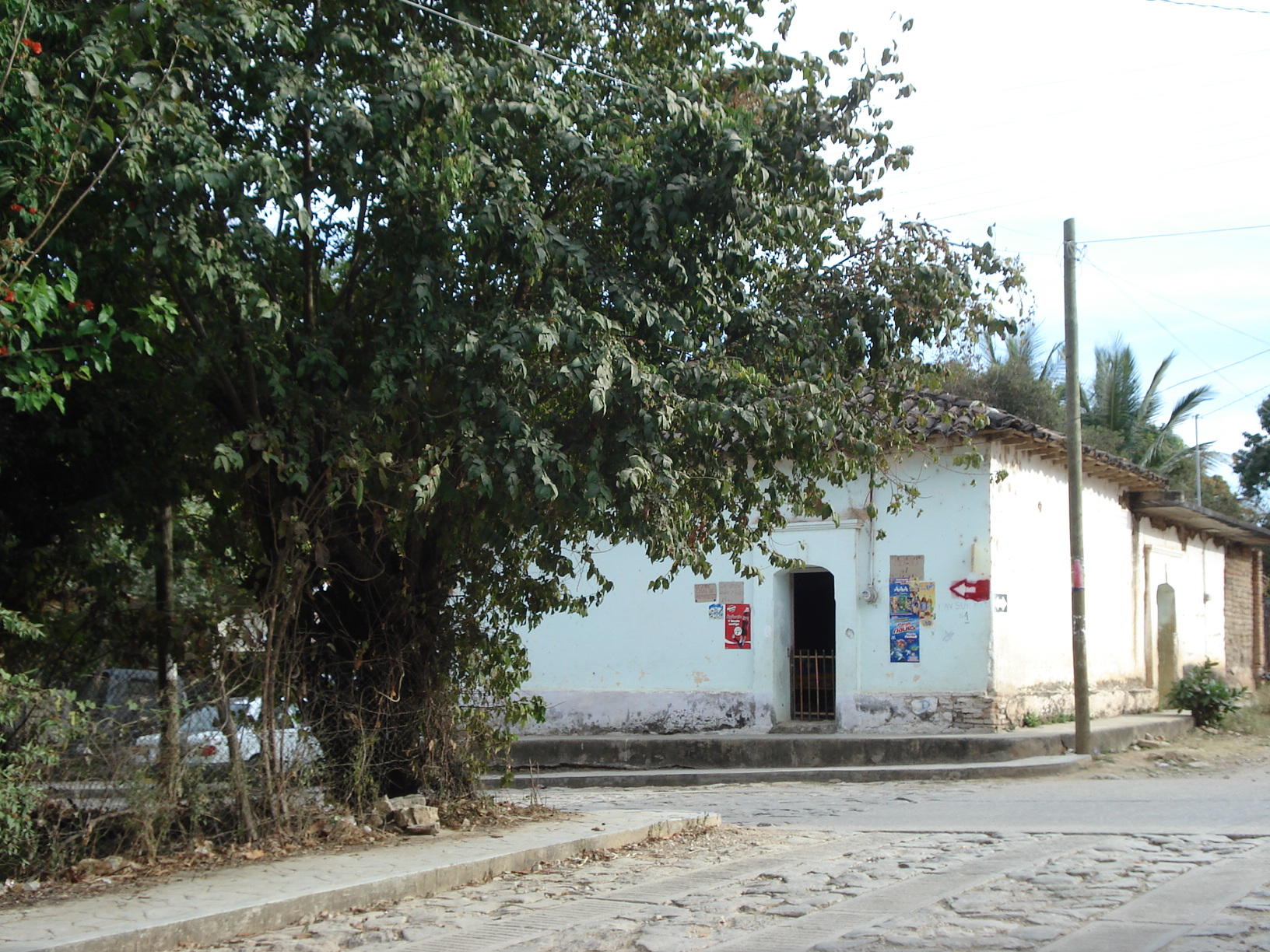 A snapshot of a street in Copoya, 2009.